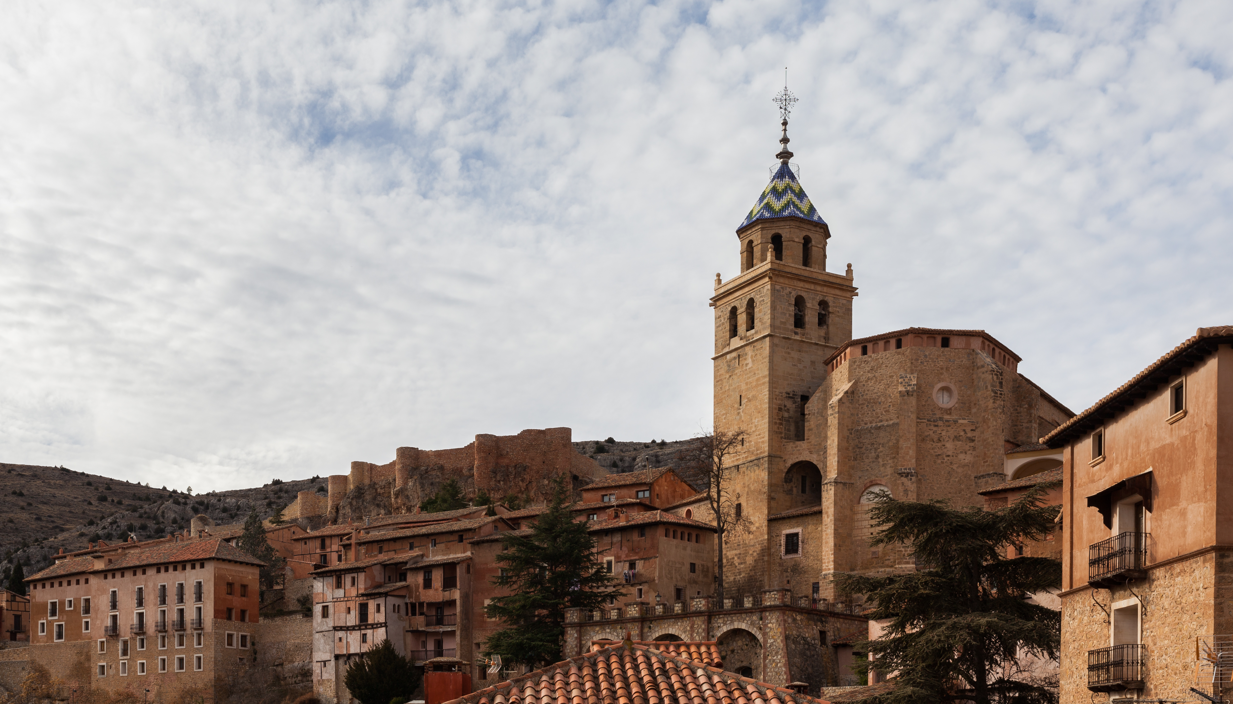 Albarracín Cathedral, Teruel, Spain